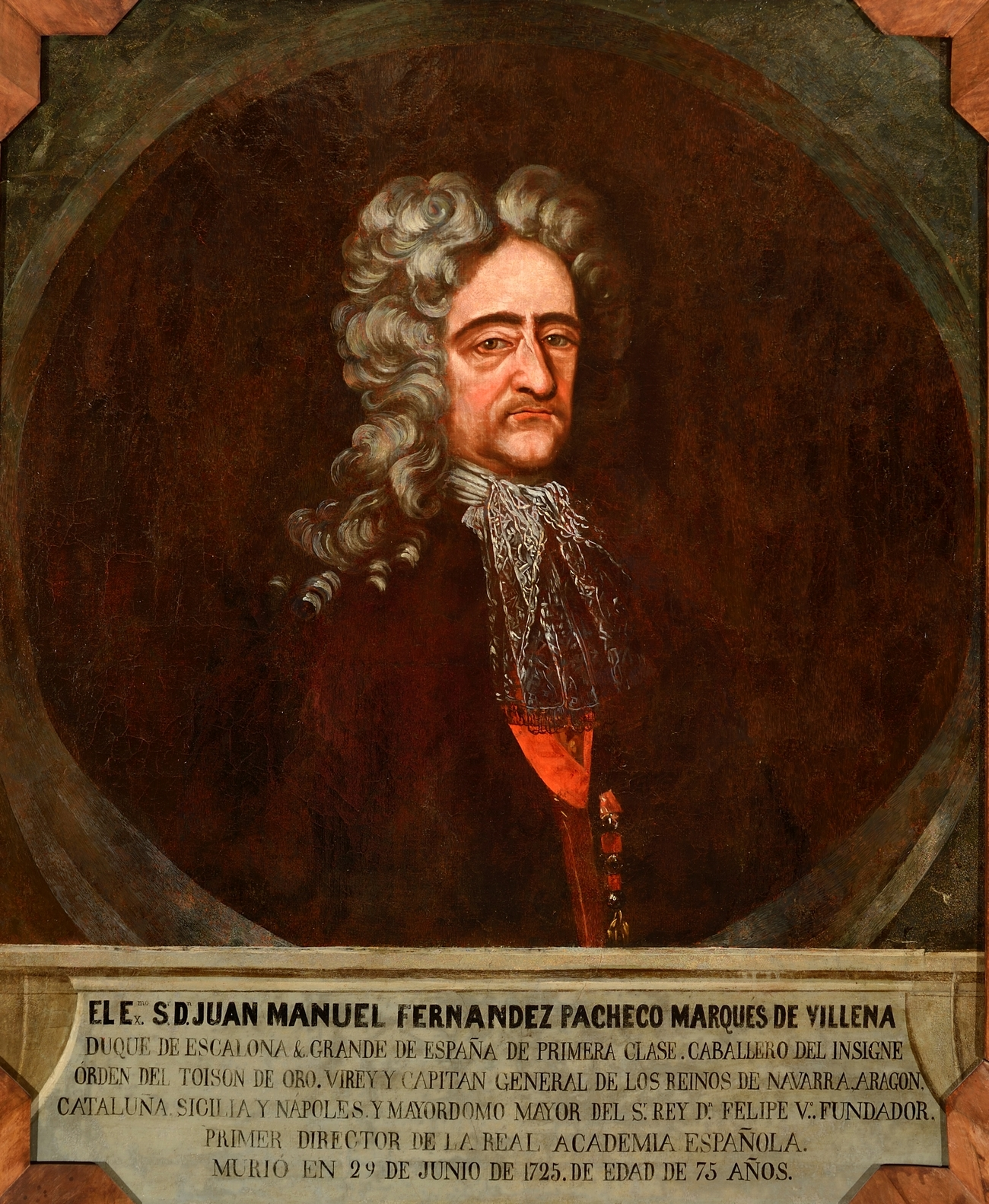 Juan Manuel Fernández Pacheco (1650-1725), marquis of Villena and first director of the Real Academia Española.